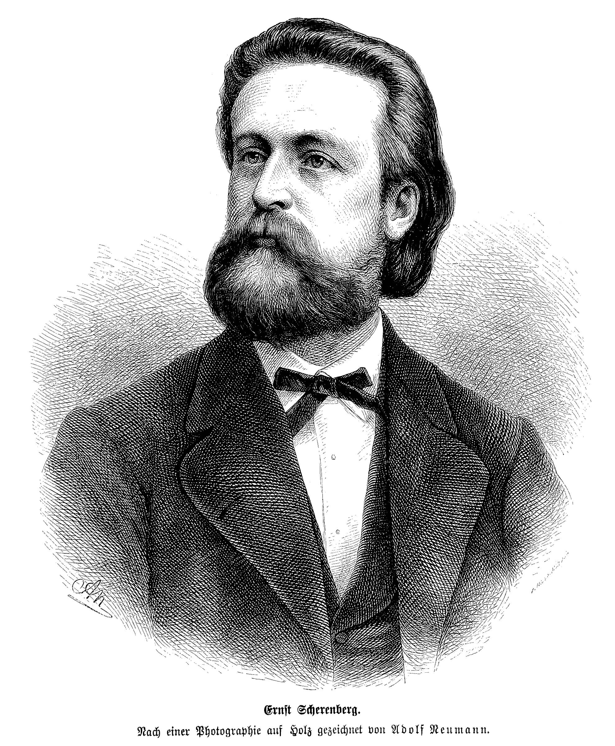 caption: "Ernst Scherenberg. Nach einer Photographie auf Holz gezeichnet von Adolf Neumann."